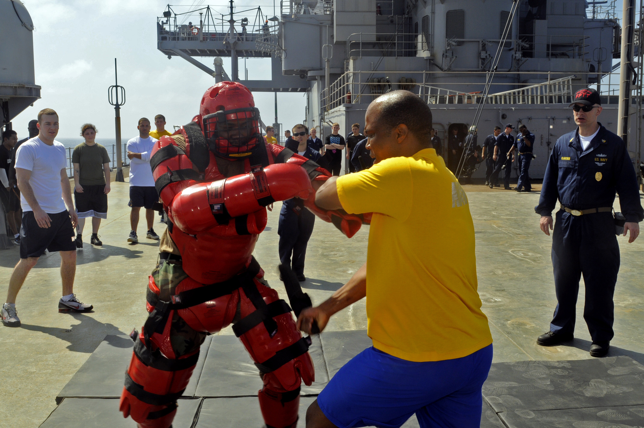 PACIFIC OCEAN (Feb. 15, 2009) Cryptologic Technician (Maintenance) 1st Class Barry J. Harmon demonstrates a self-defense baton striking technique aboard the main deck of the amphibious command ship USS Blue Ridge (LCC 19) after being sprayed with Oleoresin Capsicum "OC spray". Harmon and fellow shipmates aboard Blue Ridge are participating in a non-lethal weapons course to help complement the command's force protection cadre. Blue Ridge is the flagship for Commander, U.S. 7th Fleet/Task Force 76. (U.S. Navy photo by Mass Communication Specialist 3rd Class Daniel Viramontes/Released)